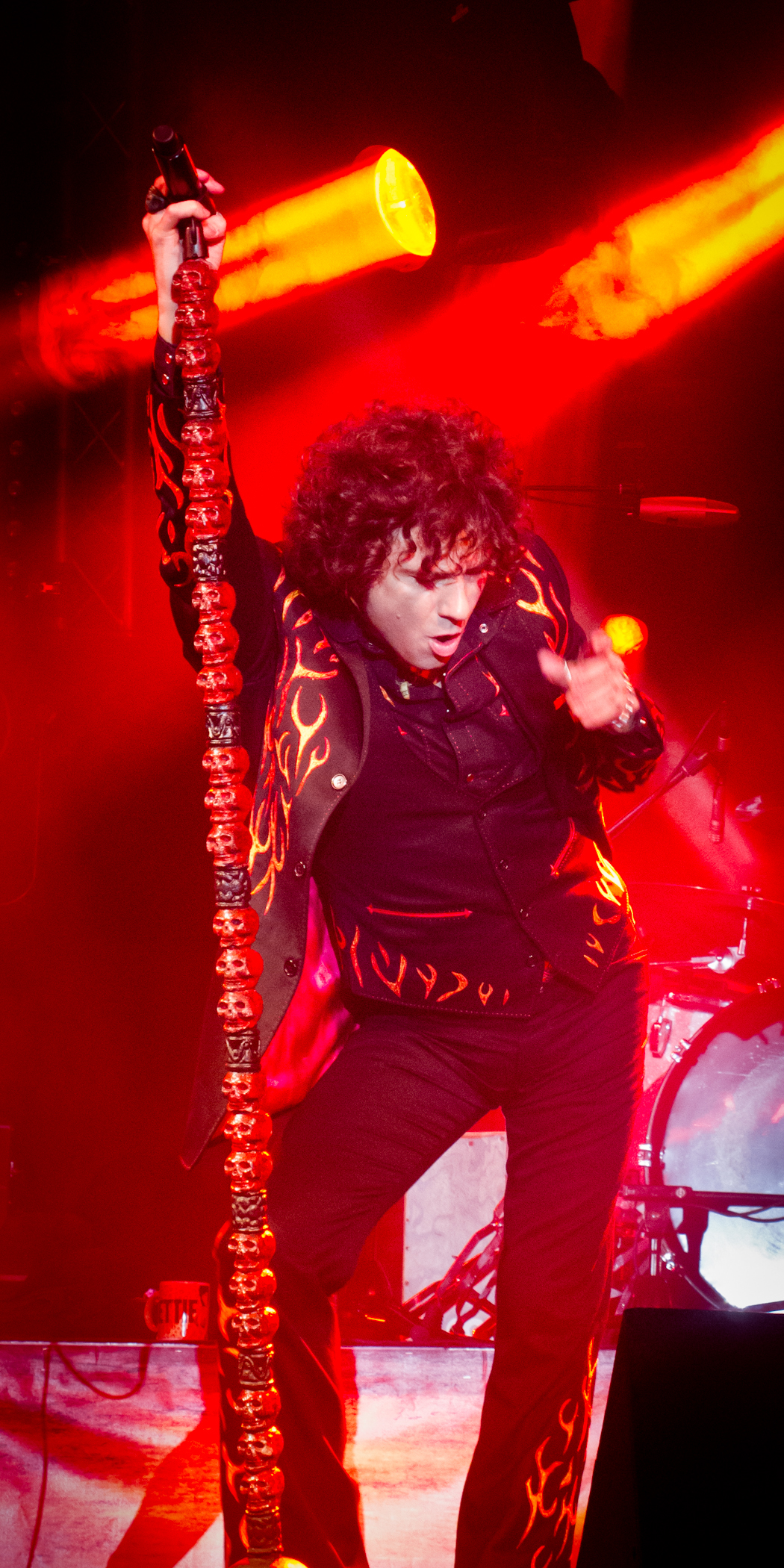 Enrique Bunbury during a concert in 2012.